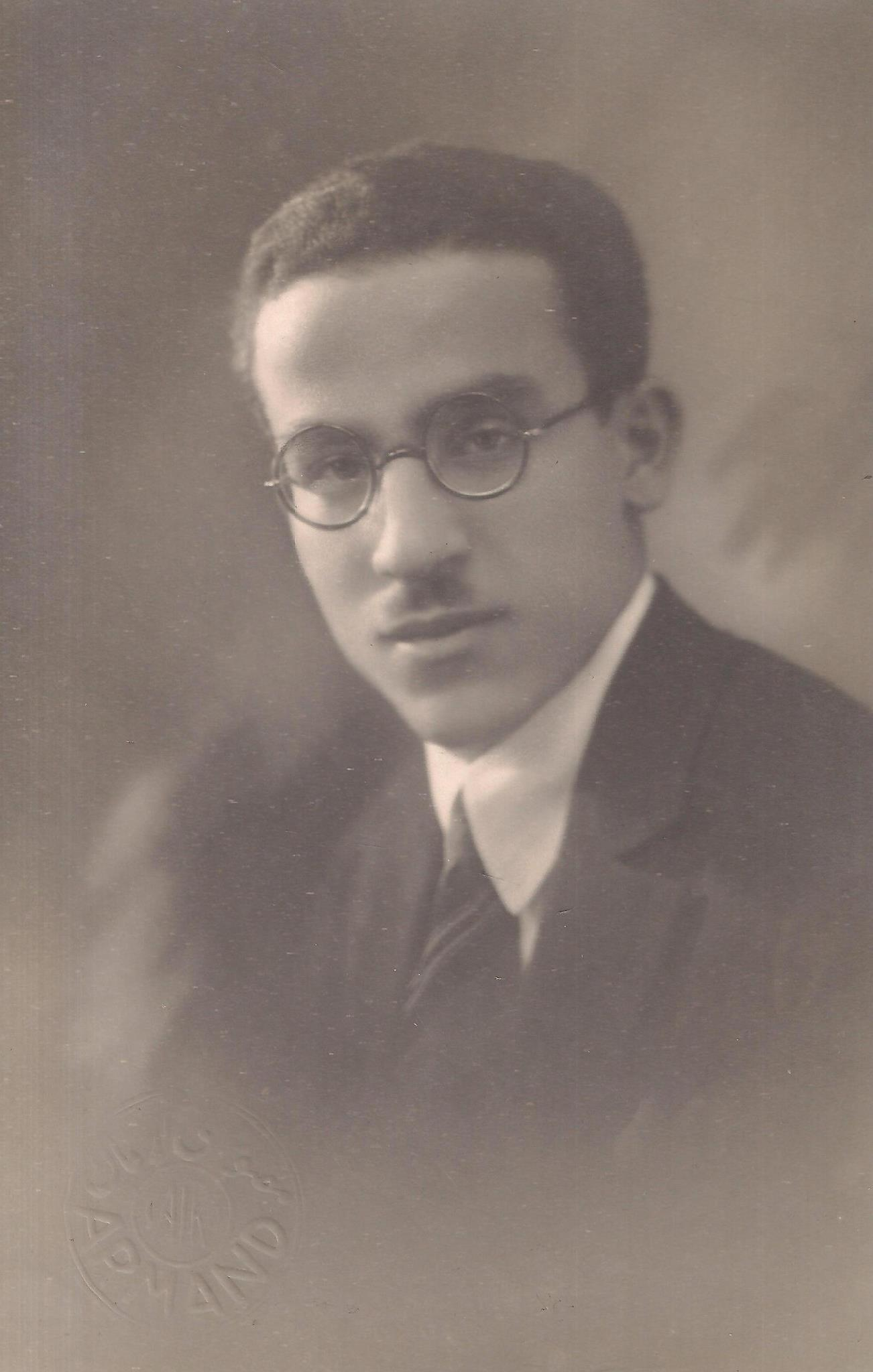 Abdel-Salam Haroun عبد السلام هارون